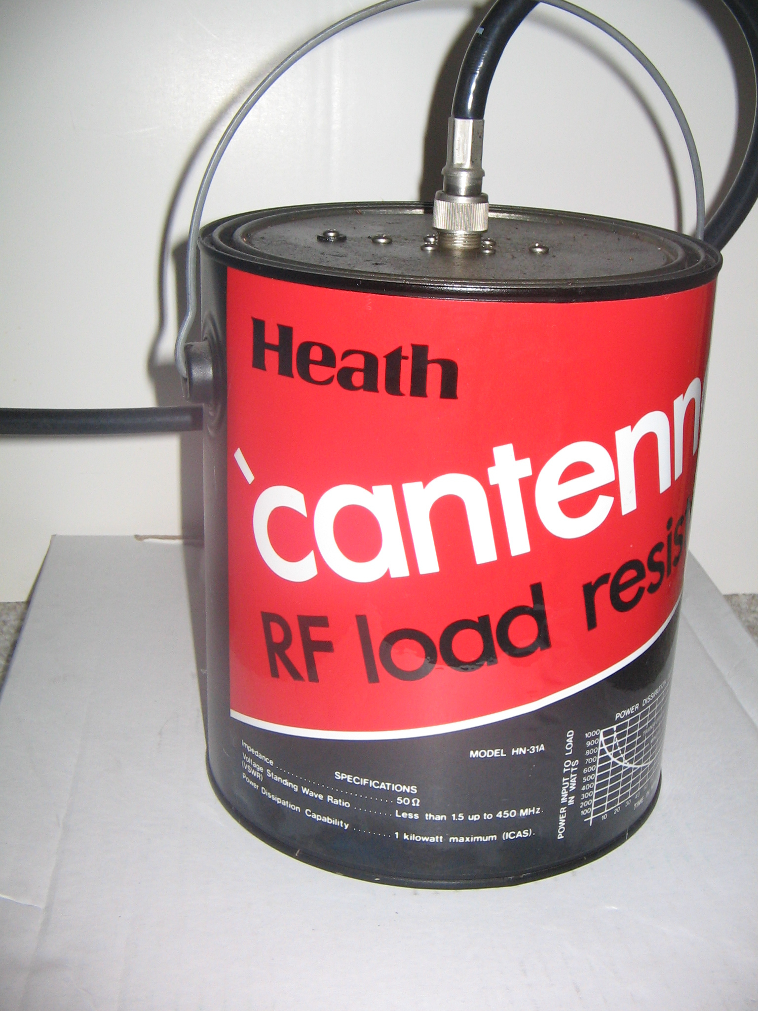 A dummy load for HF radio transmitters, useable up to about 1 kW. Manufactured by the defunct Heath company which was famous for its build-it-yourself electronics kits.